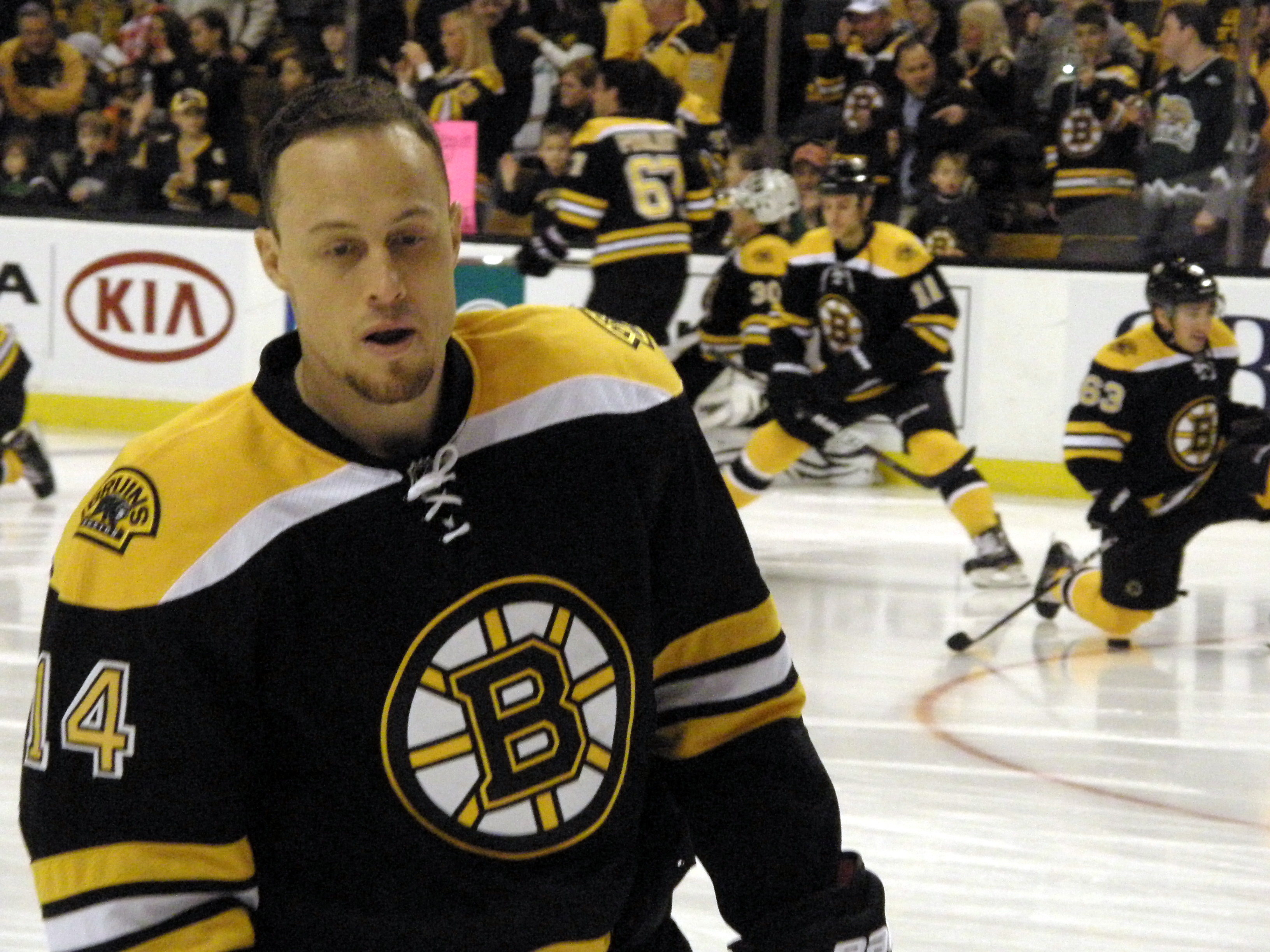 Joe Corvo (#14) of the Boston Bruins playing against the Pittsburgh Penguins at TD Garden, Boston, Massachusetts, USA.